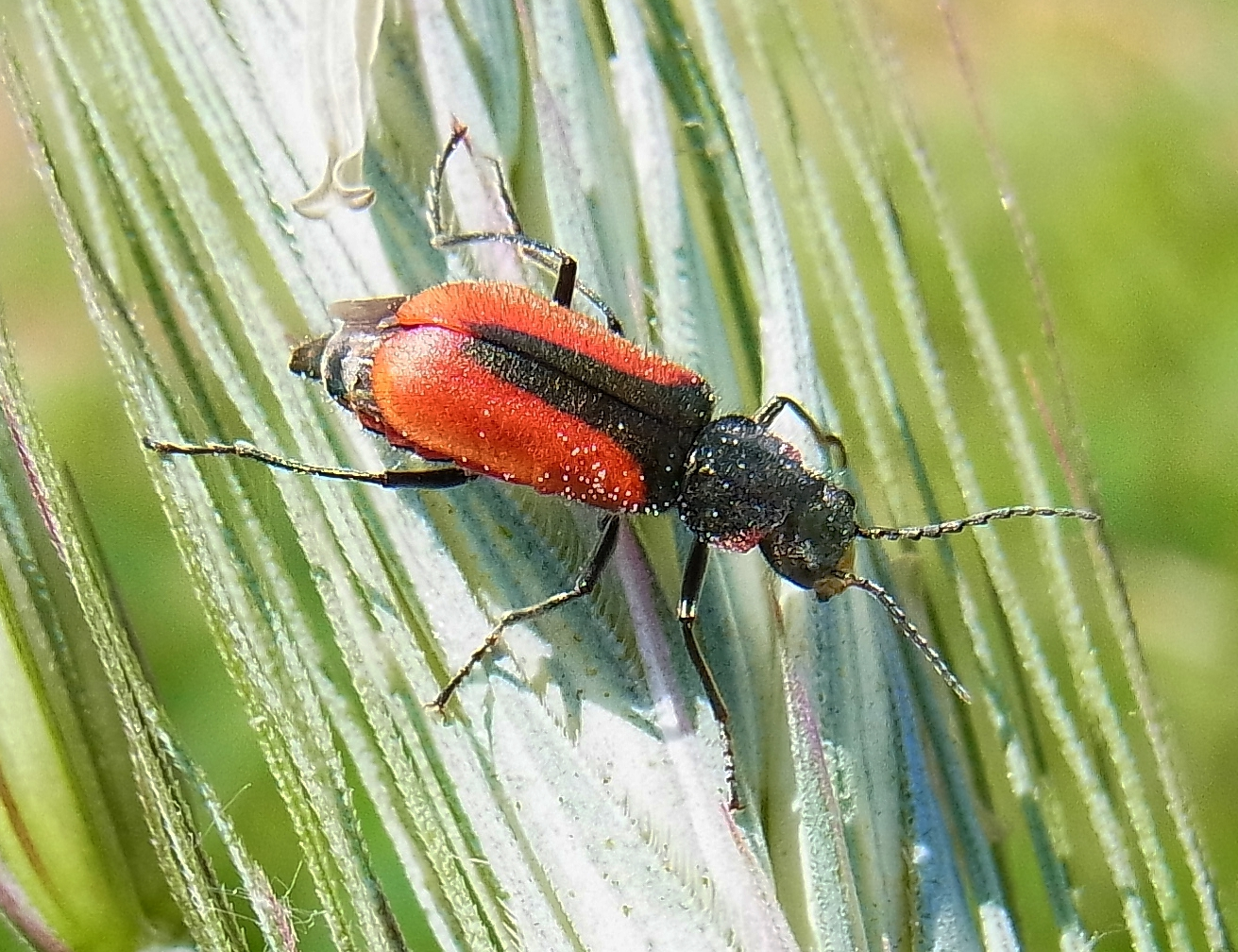 Malachius aeneus from Southern Hungary, Mórahalom, on grain at 2012-05-31